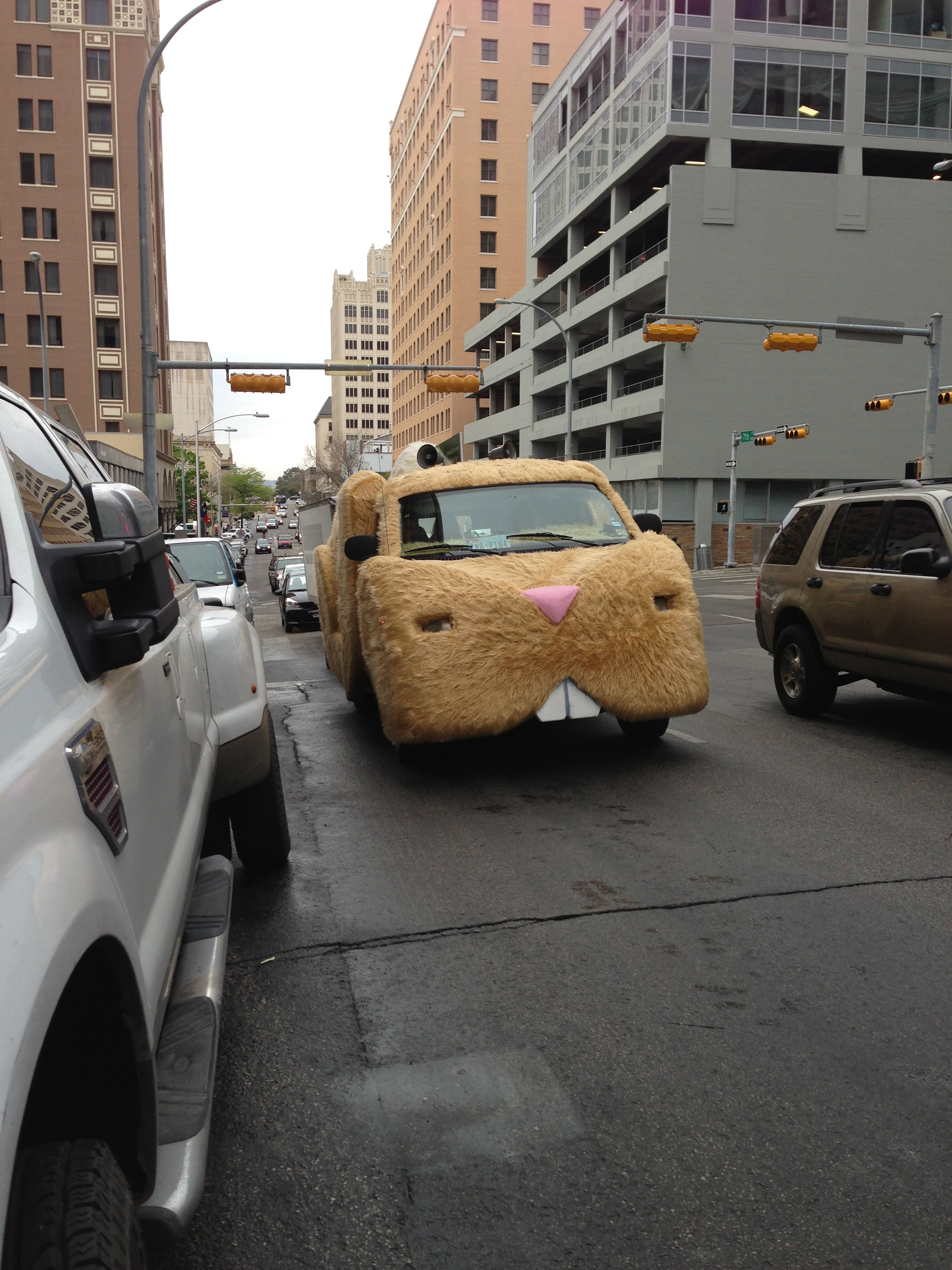 This faux-fur-covered TaskRabbit vehicle definitely turned heads during SXSW!